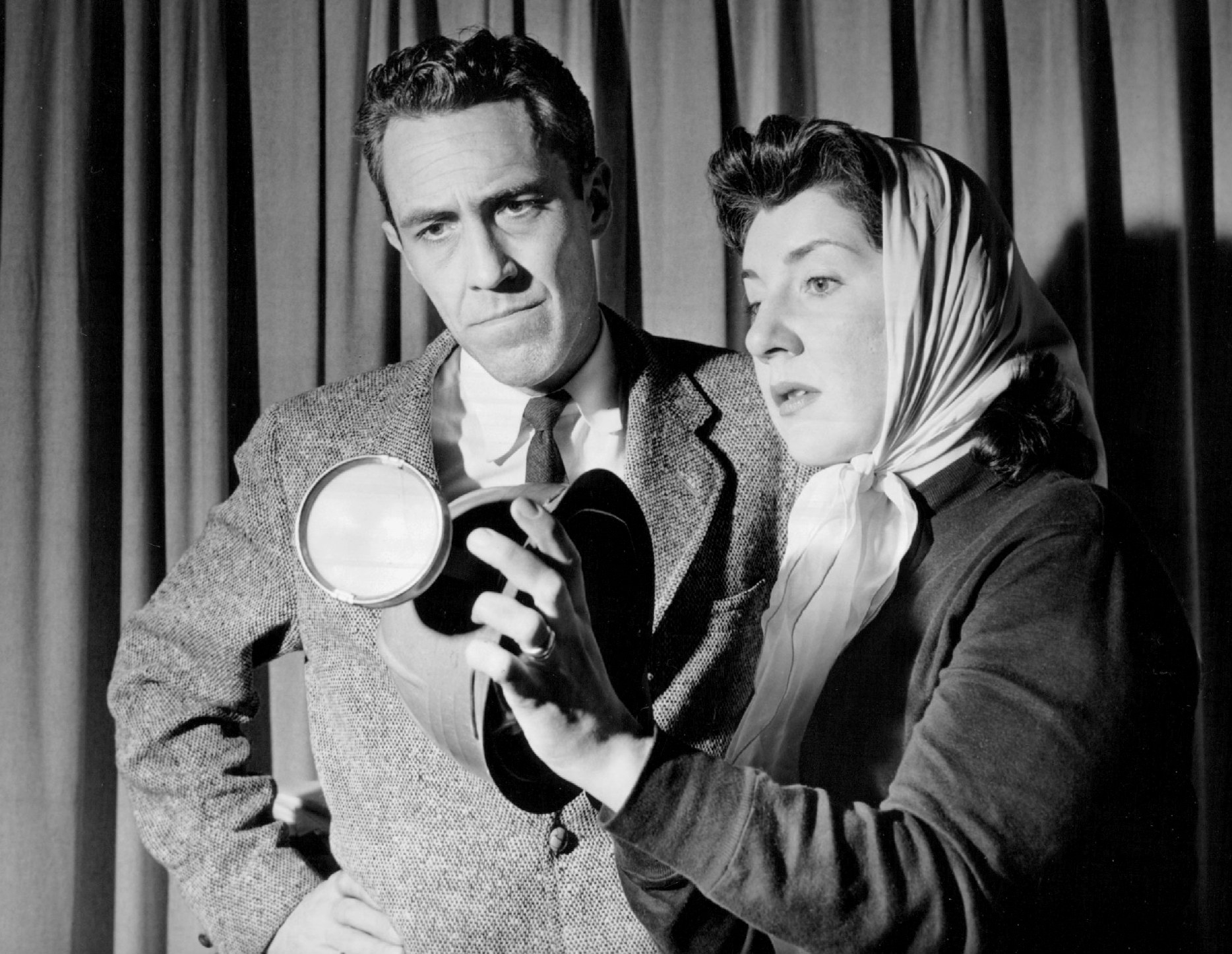 Photo of Jason Robards and Maureen Stapleton from the television anthology program The Seven Lively Arts. The presentation is "Blast in Centralia #5".